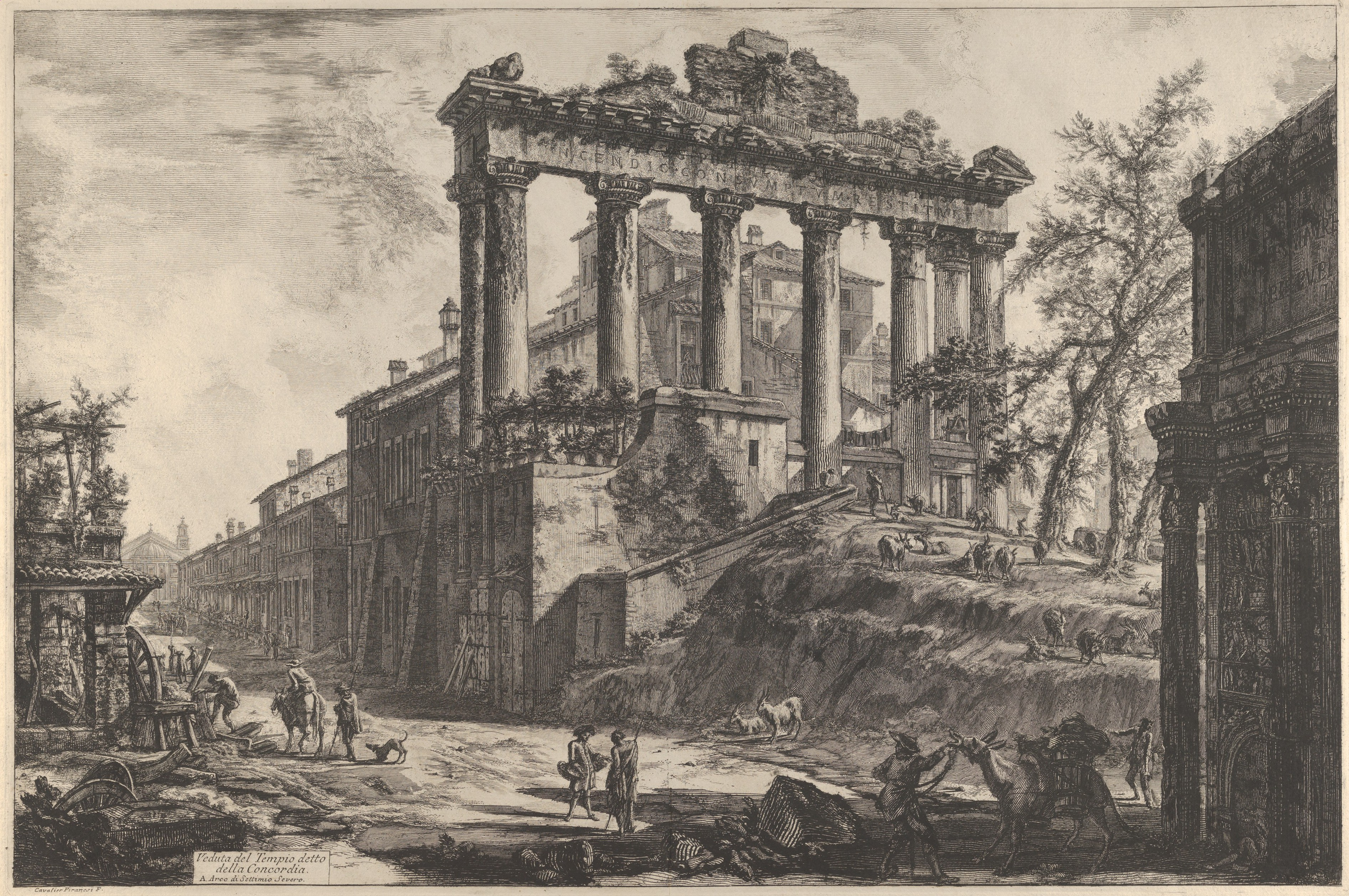 Print; Prints